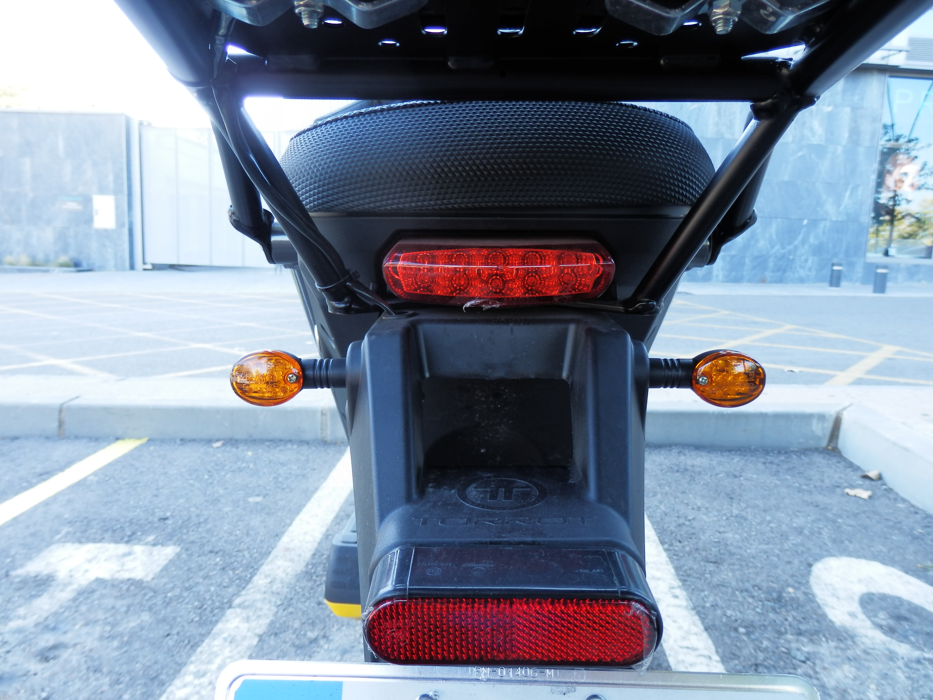 Torrot Muvi electric bike.